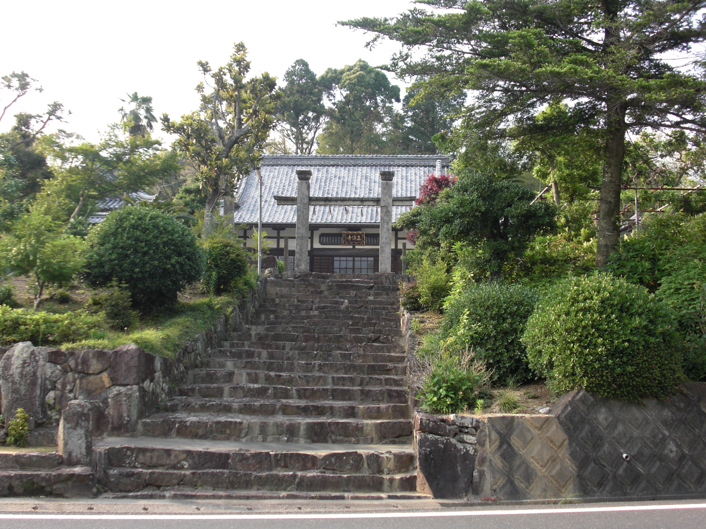 This is Shoden-ji Temple in Shima, Mie, Japan.